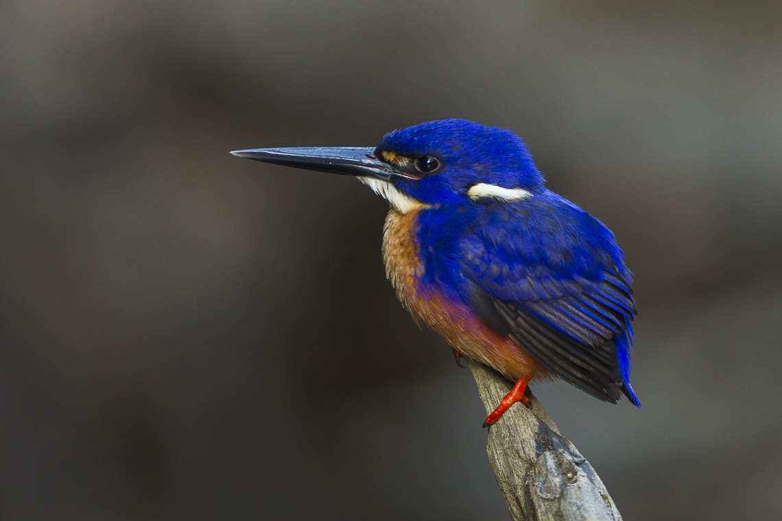 Azure Kingfisher - Daintree - Queensland_S4E9988